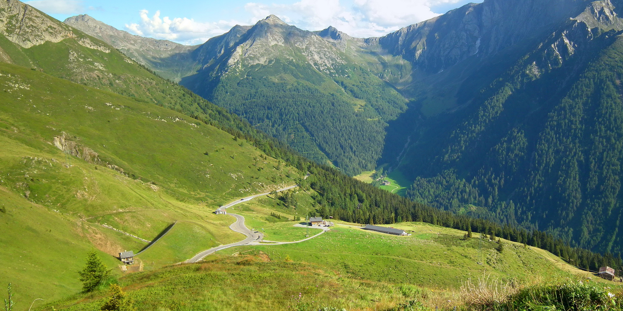 Jaufenpass/Passo di Monte Giovo, South Tyrol, Italy